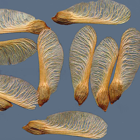 Acer rubrum fruits